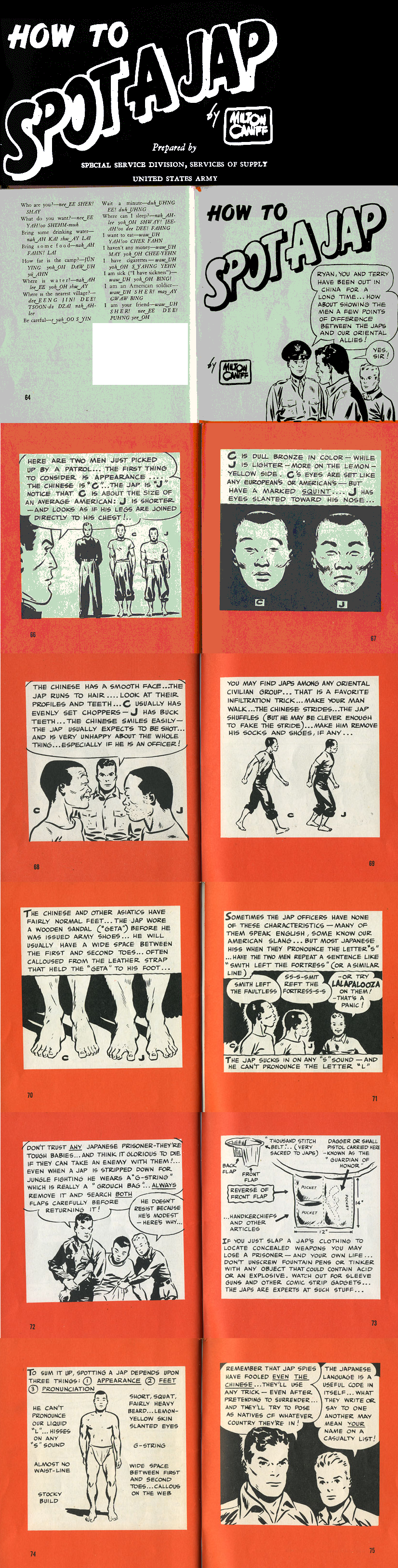 "HOW TO SPOT A JAP" (1942): US War Department produced a comic strip that was included in the 1st edition of "POCKET GUIDE TO CHINA", a 75-page booklet distributed to those serving in the US Army and Navy stationed in China during World War II. Art by Milton Caniff, who made the "TERRY AND THE PIRATES" comic. HOW TO SPOT A JAP was later removed from all subsequent POCKET GUIDE TO CHINA printings, beginning with a 2nd print in 1944. A note that the contents of this comic strip are used to provide a historical reference to media of the United States military during World War II; the comic contents are not entirely factual nor accurate, and should not be used as a guide to distinguish between Asians by appearance alone.